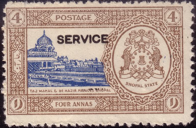 Bhopal Government postage stamp. 4 annas. Depicts Taj Mahal and Benazir Palaces.